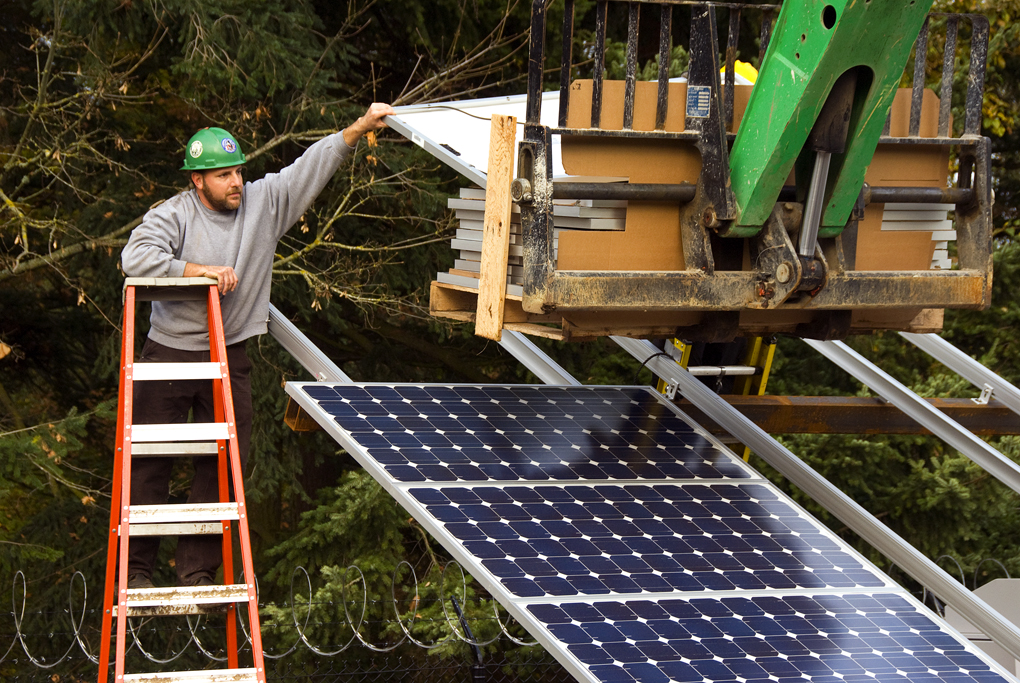 Oregon Solar Highway Demonstration Project. A worker prepares to place a solar panel onto its frame.